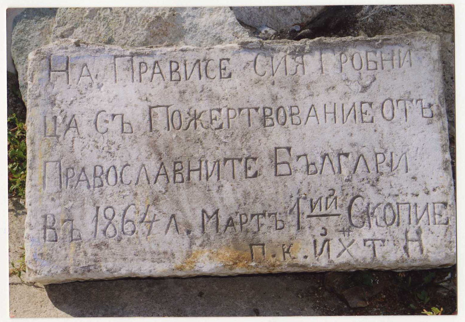 This plaque was found discarded and buried behind the church St. Demetrius in Skopie in 2000. The plaque is now located in the National Museum of History in Sofia. The photograph was taken immediately after the discovery of the plaque. The English translation of the inscription is as follows: "This cemetery was made with the contribution of the Orthodox Bulgarians. March 1, 1864. Skopie."